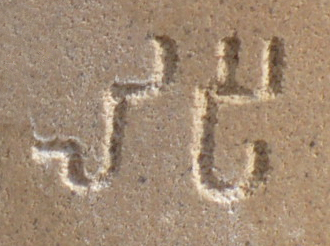 Ashoka Sarnath Lipii word